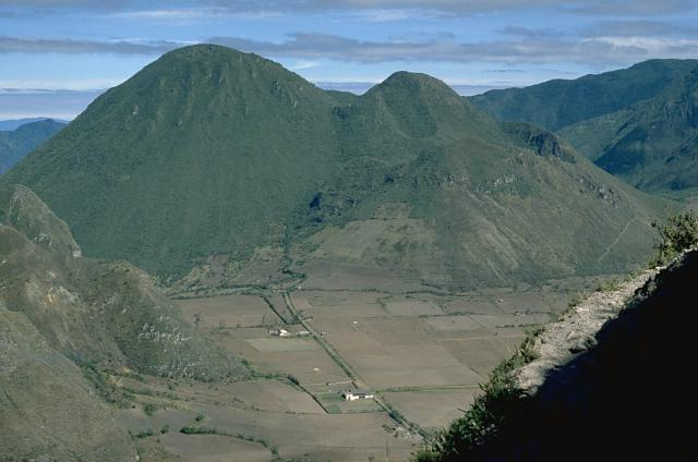 Loma Pondona (left) and the lower Rumiloma (right center) - two of a group of lava domes that partially fill caldera.